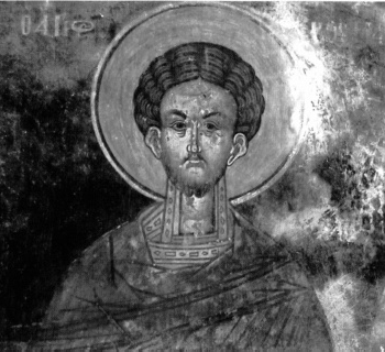 Fresco of Saint Cosmas in Transfiguration Monastery in Drenovo, Lunxheri, Albania, 1666.